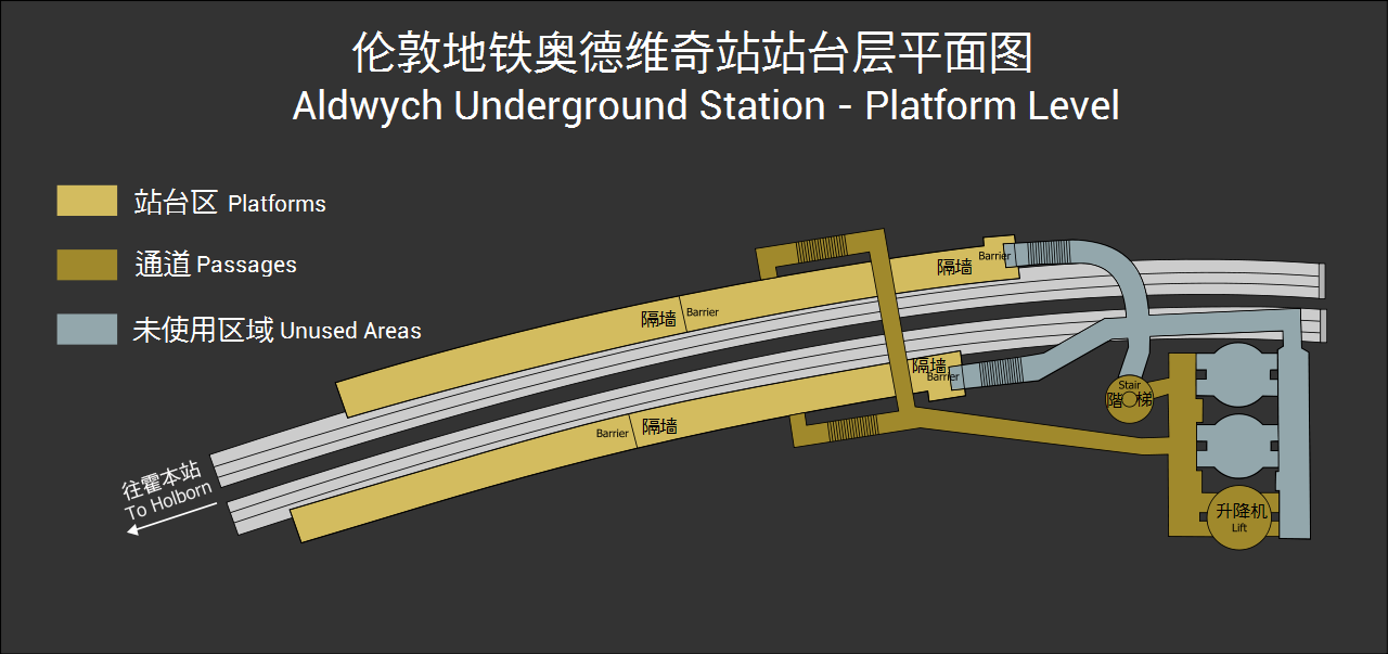 (Simplified Chinese version) Platform layout of Aldwych tube station based on information in original architect's drawings.